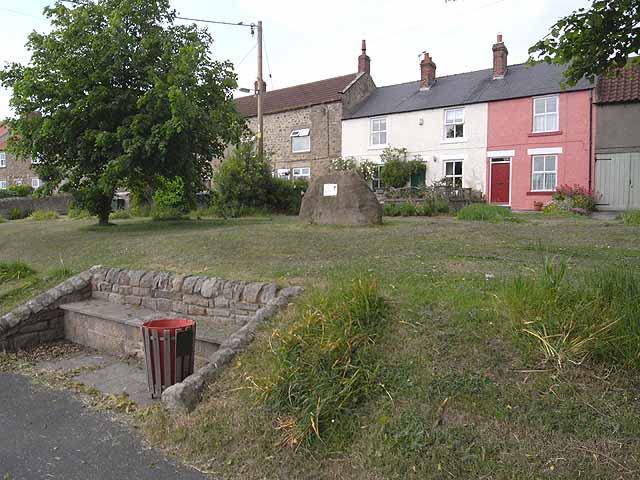 Cottages at Ingleton. The Millennium Stone 1339334 stands on the green in front of the cottages.